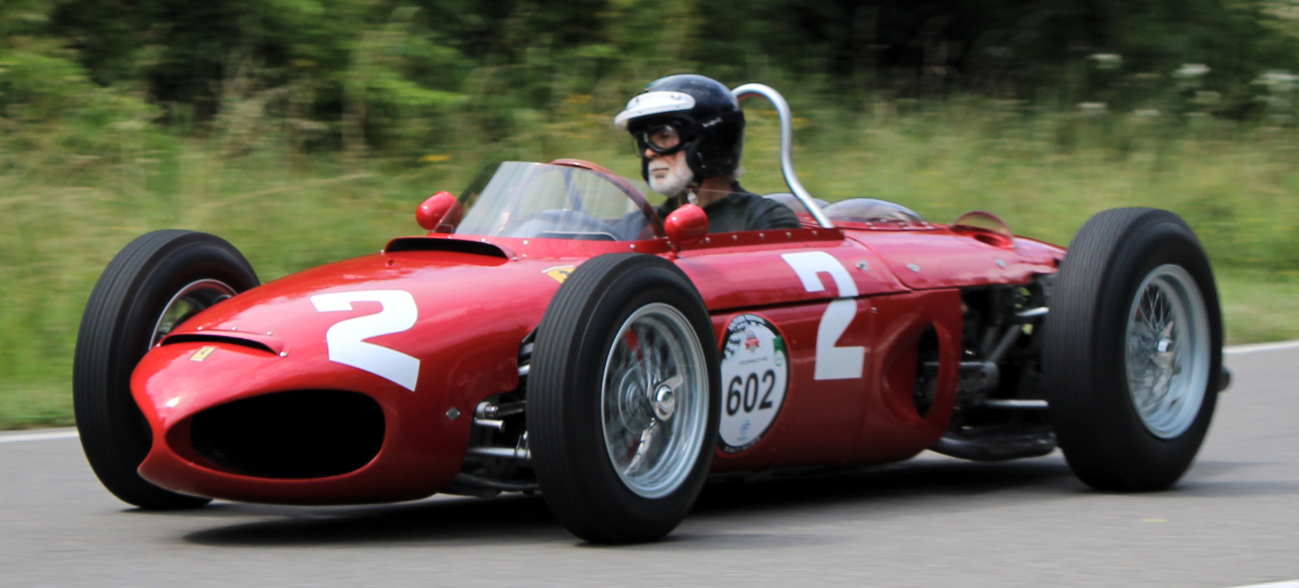 Ferrari Tipo 156 Sharknose at Solitude Revival 2019